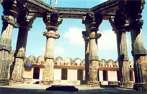 fort